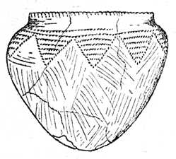 Drawing of an ancient pot